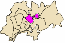 position of Binh Thanh district in an outline of the core area of HCMC (Ho Chi Minh City, Vietnam) - ISO code VN-F-HC. Keywords: map, outline, city, Ho Chi Minh City, HCMC, HCM, Binh Thanh district, quan Binh Thanh.